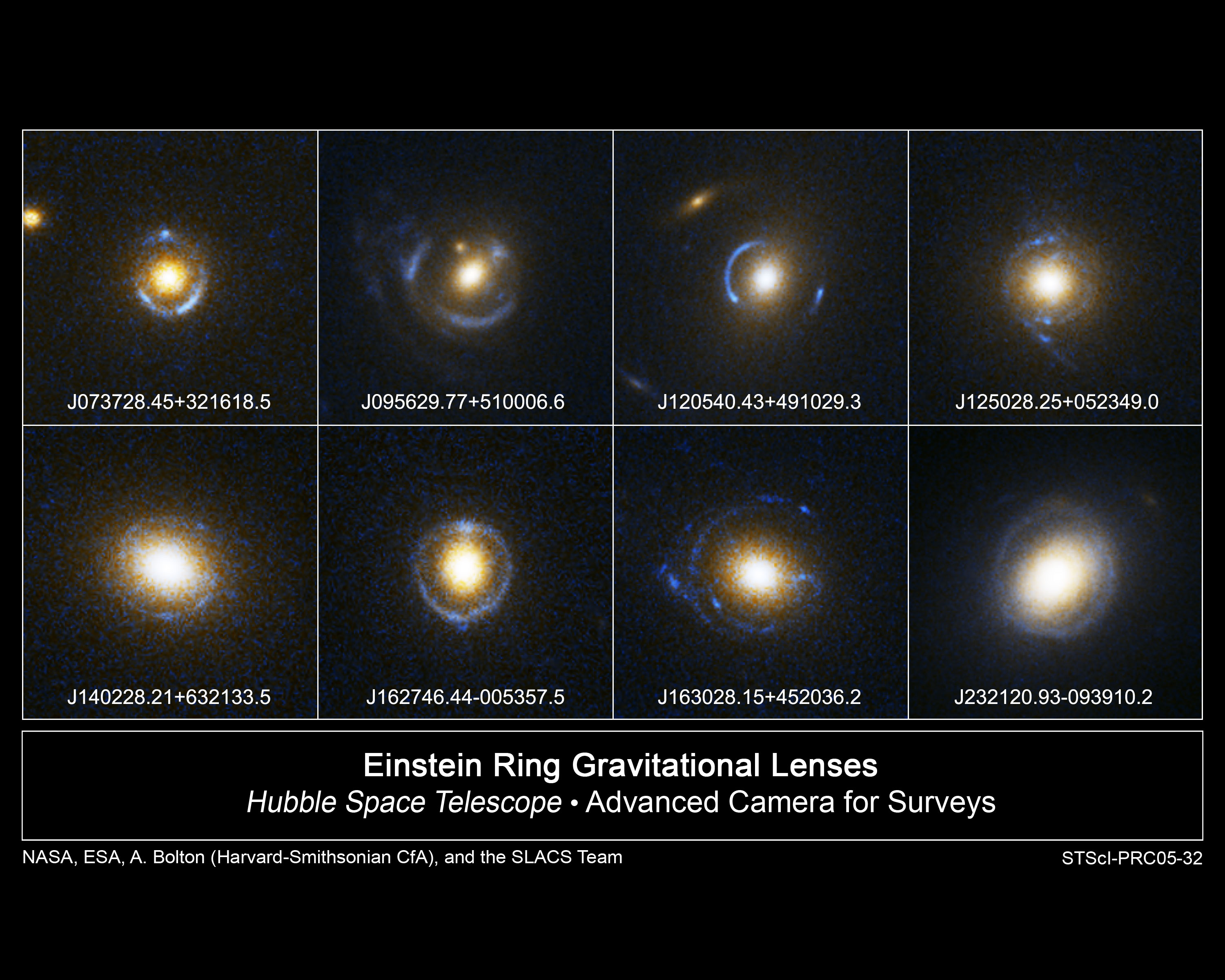 An assortment of Einstein rings photographed by Hubble Space Telescope in 2005. Diameters of several rings in arcsec ( "THE SLOAN LENS ACS SURVEY" (2005) Adam S. Bolton): SDSS J003753.21-094220.1 2.16 ± 0.06 SDSS J021652.54-081345.3 3.05 ± 0.13 SDSS J073728.45+321618.5 2.16 ± 0.13 SDSS J081931.92+453444.8 2.32 ± 0.13 SDSS J091205.30+002901.1 3.36 ± 0.05 SDSS J095320.42+520543.7 1.77 ± 0.09 SDSS J095629.77+510006.6 2.33 ± 0.09 SDSS J095944.07+041017.0 1.21 ± 0.04 SDSS J102551.31-003517.4 4.05 ± 0.08 SDSS J111739.60+053413.9 2.49 ± 0.11 SDSS J120540.43+491029.3 2.30 ± 0.10 SDSS J125028.25+052349.0 1.76 ± 0.07 SDSS J125135.70-020805.1 3.64 ± 0.19 SDSS J125919.05+613408.6 1.94 ± 0.07 SDSS J133045.53-014841.6 0.84 ± 0.04 SDSS J140228.21+632133.5 2.67 ± 0.08 SDSS J142015.85+601914.8 2.17 ± 0.03 SDSS J154731.22+572000.0 2.56 ± 0.06 SDSS J161843.10+435327.4 1.34 ± 0.05 SDSS J162746.44-005357.5 2.08 ± 0.08 SDSS J163028.15+452036.2 2.02 ± 0.07 SDSS J163602.61+470729.5 1.48 ± 0.05 SDSS J170216.76+332044.7 2.80 ± 0.07 SDSS J171837.39+642452.2 3.67 ± 0.07 SDSS J230053.14+002237.9 1.76 ± 0.10 SDSS J230321.72+142217.9 3.02 ± 0.09 SDSS J232120.93-093910.2 3.92 ± 0.05 SDSS J234728.08-000521.2 1.78 ± 0.28